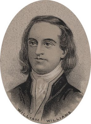 William Williams, signer of the US Declaration of Independance